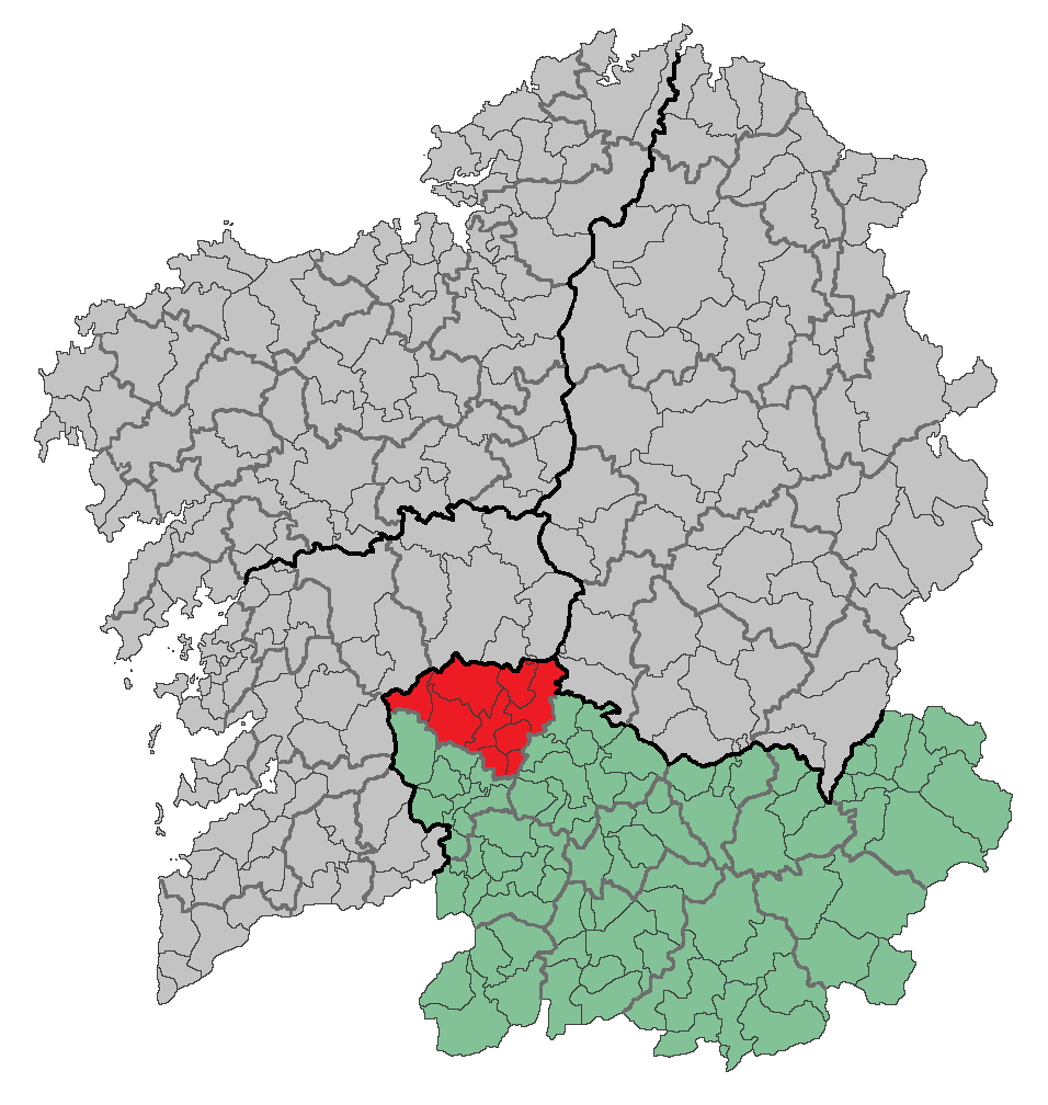 Region of Galicia (Spain)Based in: Image:Location of Betanzos.png Source: Designed by Leoplus. Original picture, designed by Caiser over a work made by Alyssalover.